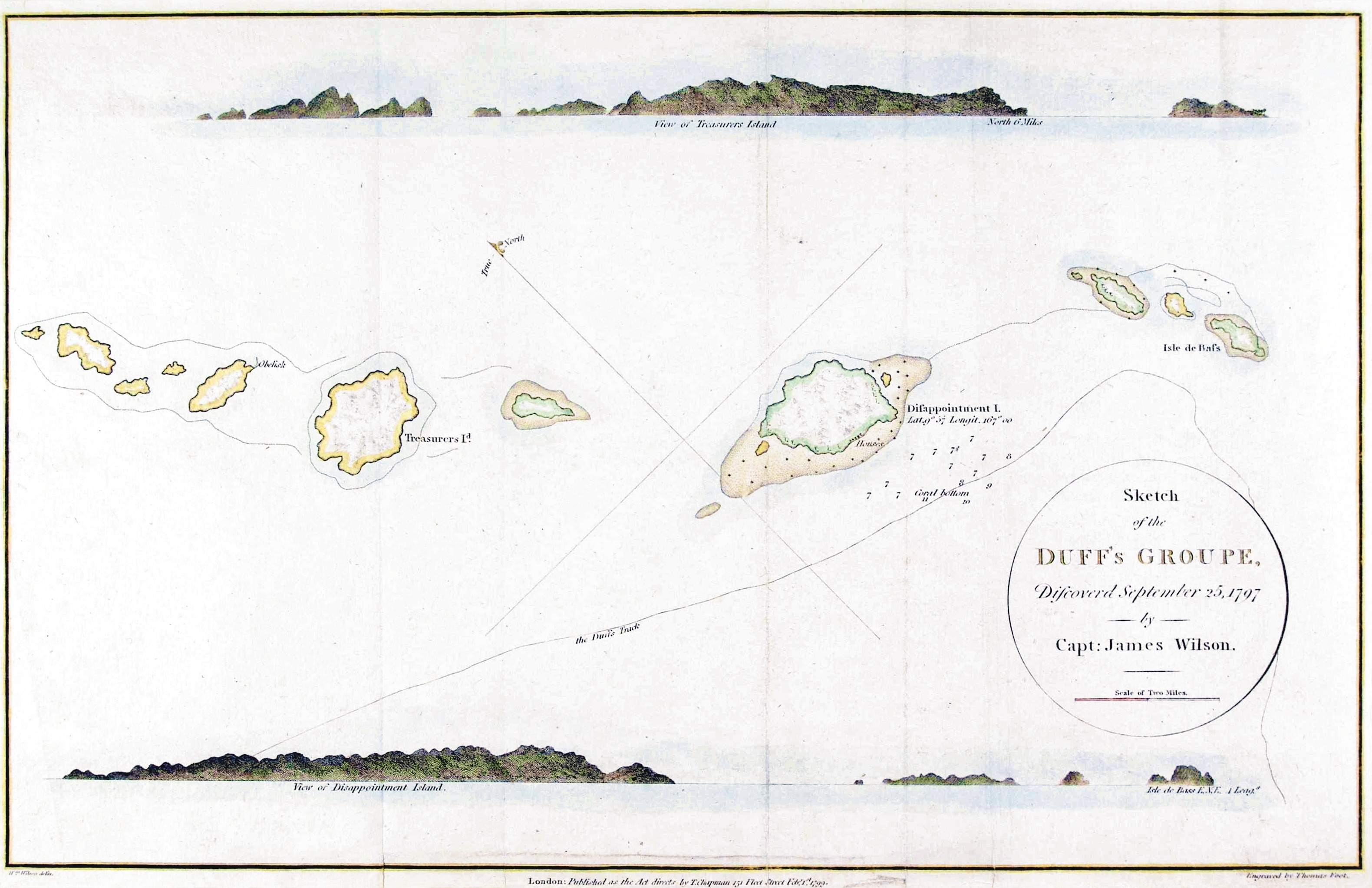 map of Duff Islands, Solomon IslandsPublished in: James Wilson: A Missionary Voyage to the southern Pacific Ocean . . . T. Chapman London, 1799, after page 291